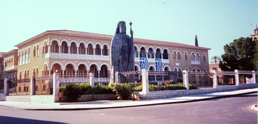 The Makarios statue was 2009 to Kykkos Monastery (Troodos-Mountains) removed.